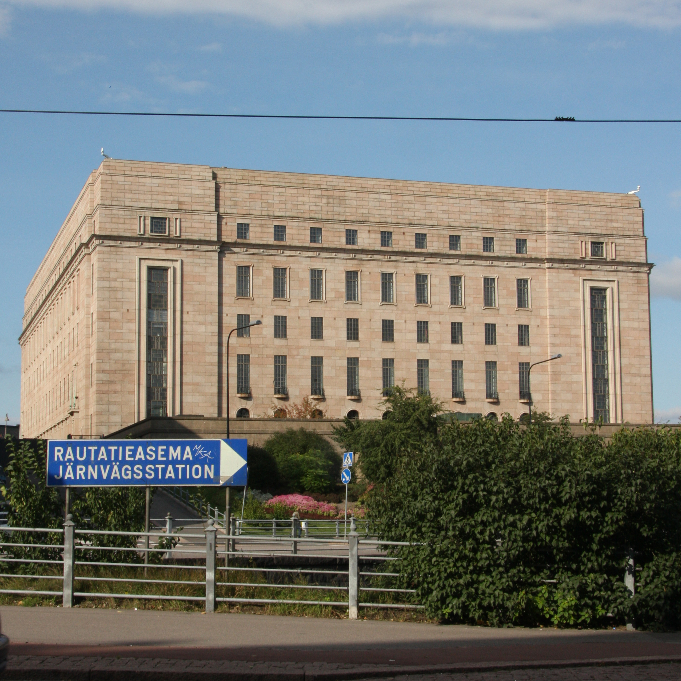 Parliament House of Finland, Helsinki